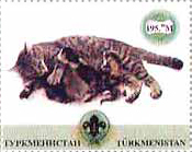 scan from the collection of Chris Fitch, (Kintetsubuffalo) , user talk:Kintetsubuffalo(t) This work is not an object of copyright according to the Civil Code of Turkmenistan of July 17, 1998. Article 1061. Works that are not Objects of Copyright: a) formal documents (laws, judgments, other texts of administrative and legal nature), and also their official translations; b) state symbols and signs (flag, coat of arms, anthem, awards, banknotes and other signs); c) reports on events and facts, which have a purely informational character; d) works of folk arts. Note: According to interstate and international compacts Turkmenistan is the legal successor of the Turkmen SSR, therefore this license tag is also applicable to official symbols and formal documents of the Turkmen SSR. Replacing images by Chris 22:34, 5 August 2006 (UTC) as fair use, as per discussion, the article specifically deals with the fact that the topic is tied directly and crucially with a stamp. Copyright Act of 1976, 17 U.S.C. Â§ 107, excerpted here: "the fair use of a copyrighted work, including such use by reproduction in copies or phonorecords or by any other means specified by that section, for purposes such as criticism, comment, news reporting, teaching (including multiple copies for classroom use), scholarship, or research, is not an infringement of copyright. (highlighted sections emphasized by Chris 22:34, 5 August 2006 (UTC)) On seven national Scouting articles-five in Africa which the Scouting WikiProject had to save from afd earlier this year, plus Lithuania and Turkmenistan, the stamps don't illustrate the subject, they prove the existence of the subject, and so are an integral and structural part of the article. They provide a visual record where no other exists at present. There has to be some way fair use and article content can both be satisfied.